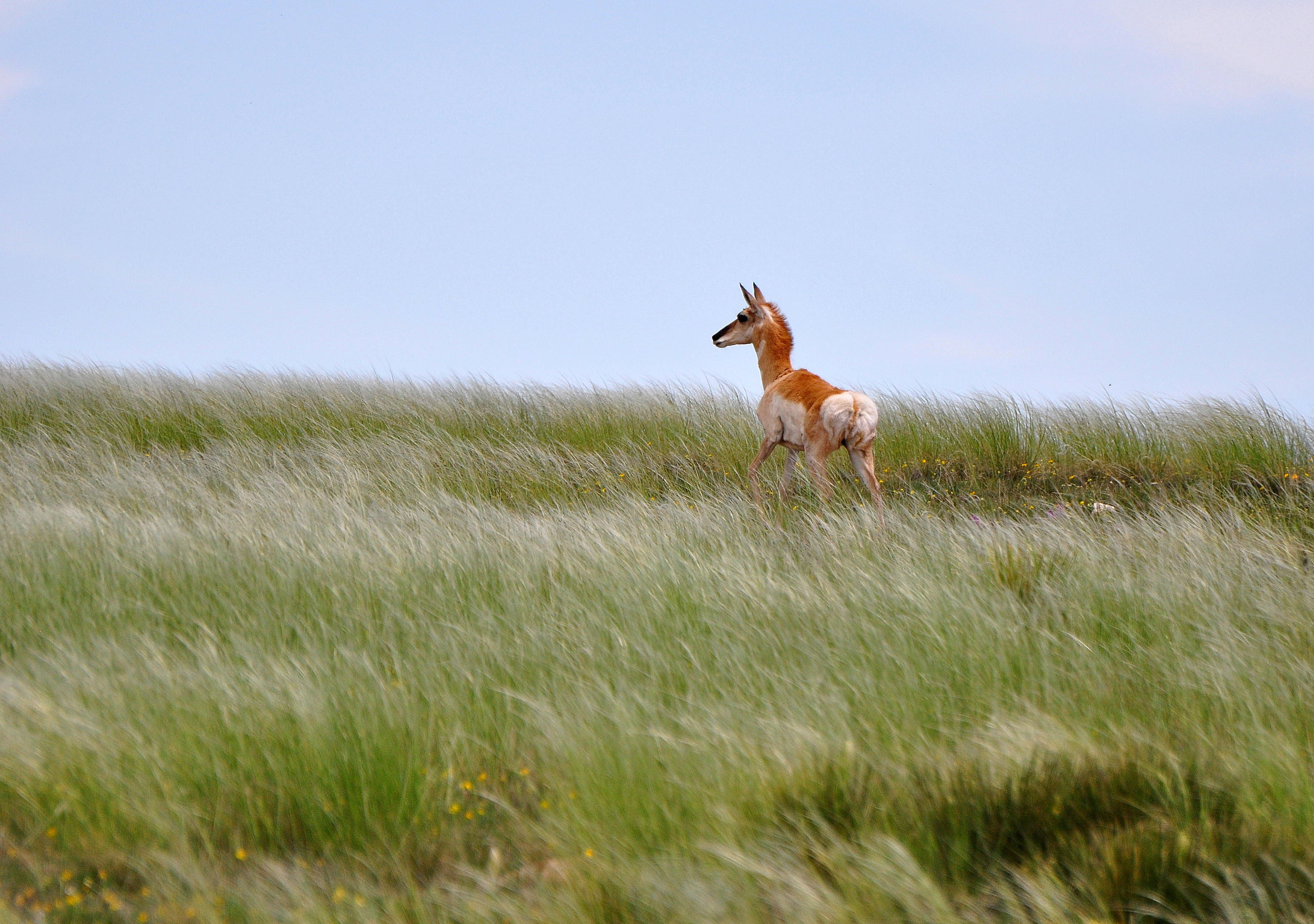 A young pronghorn (Antilocapra americana) in Kiowa National Grassland